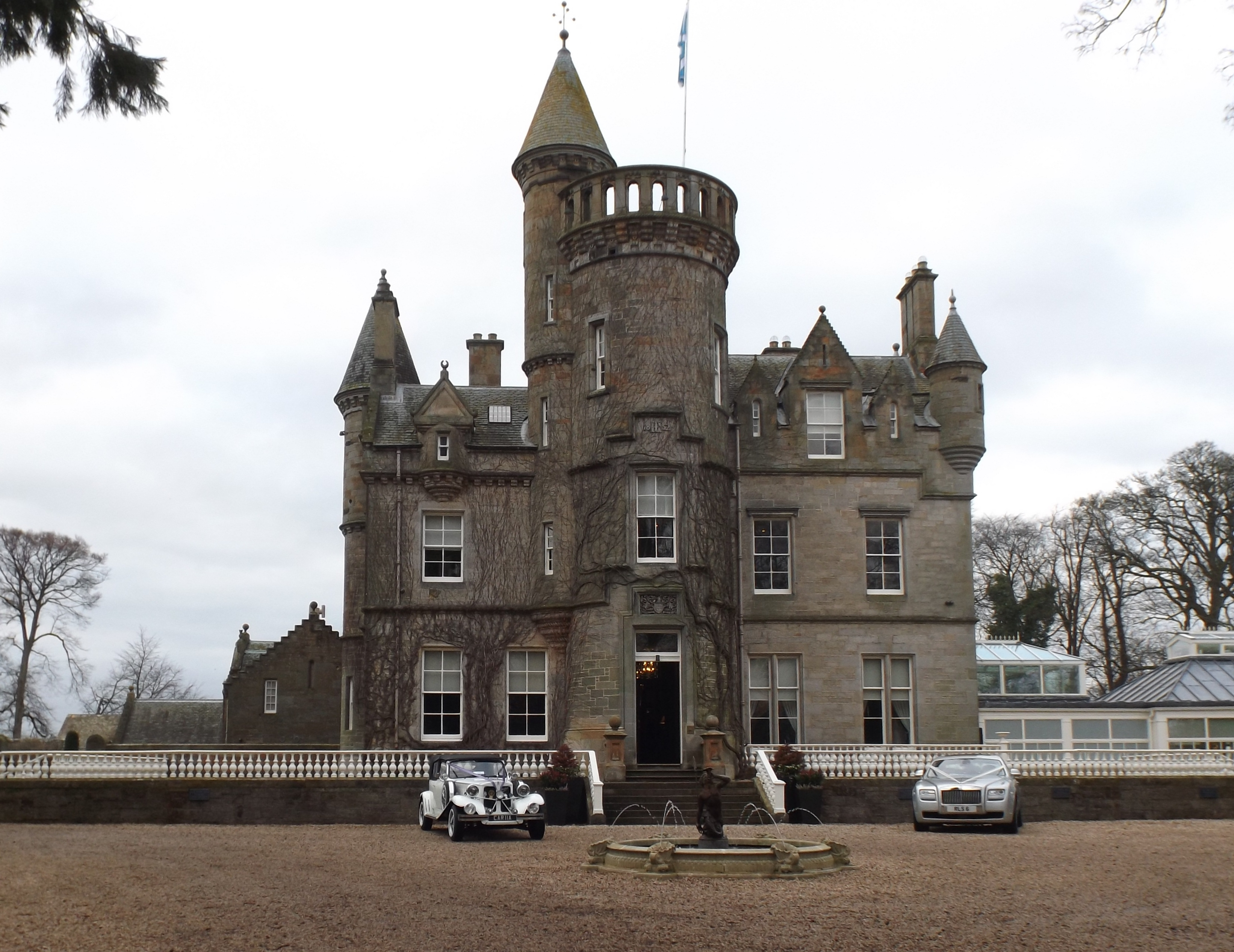 Carlowrie Castle was built in 1852 as a medium sized private home. It is located outside the village of Kirkliston.